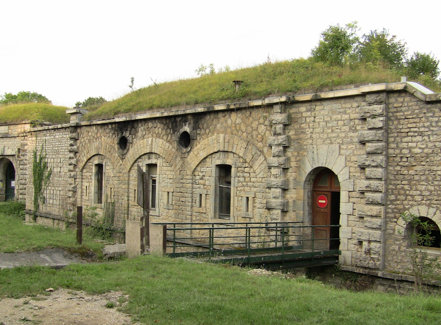 Entrance of the Fort of Planoise, located in Besançon (France)